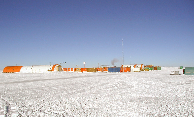 The main part of the summer camp at Dome C (Concordia) Station in January 2005. The nearest tent was a mix of office space and lounges. The next building, constructed from orange shipping containers, had some sleeping rooms, the kitchen and eating area, and a lounge. The power plant was right behind that building, and the distant tents were a garage and workshop. Sleeping tents were located behind the photographer.